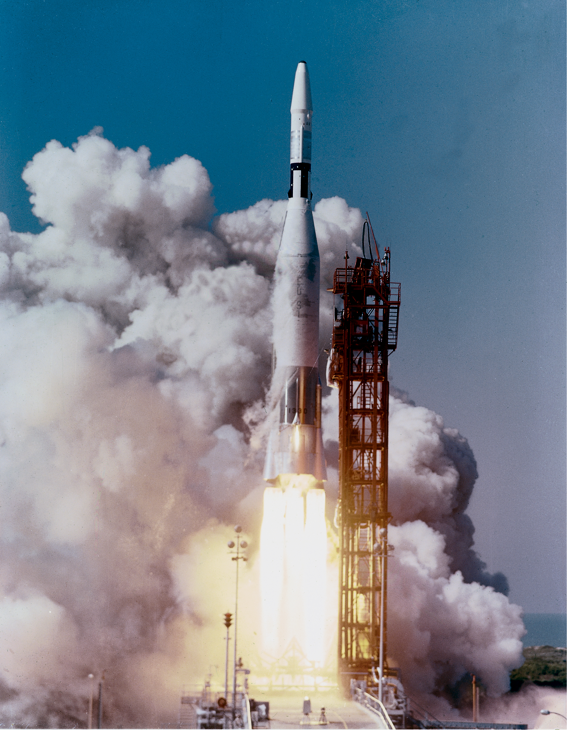 The Atlas-Agena-4 boosted the Ranger IV spacecraft for the first U.S. lunar impact on April 23, 1962